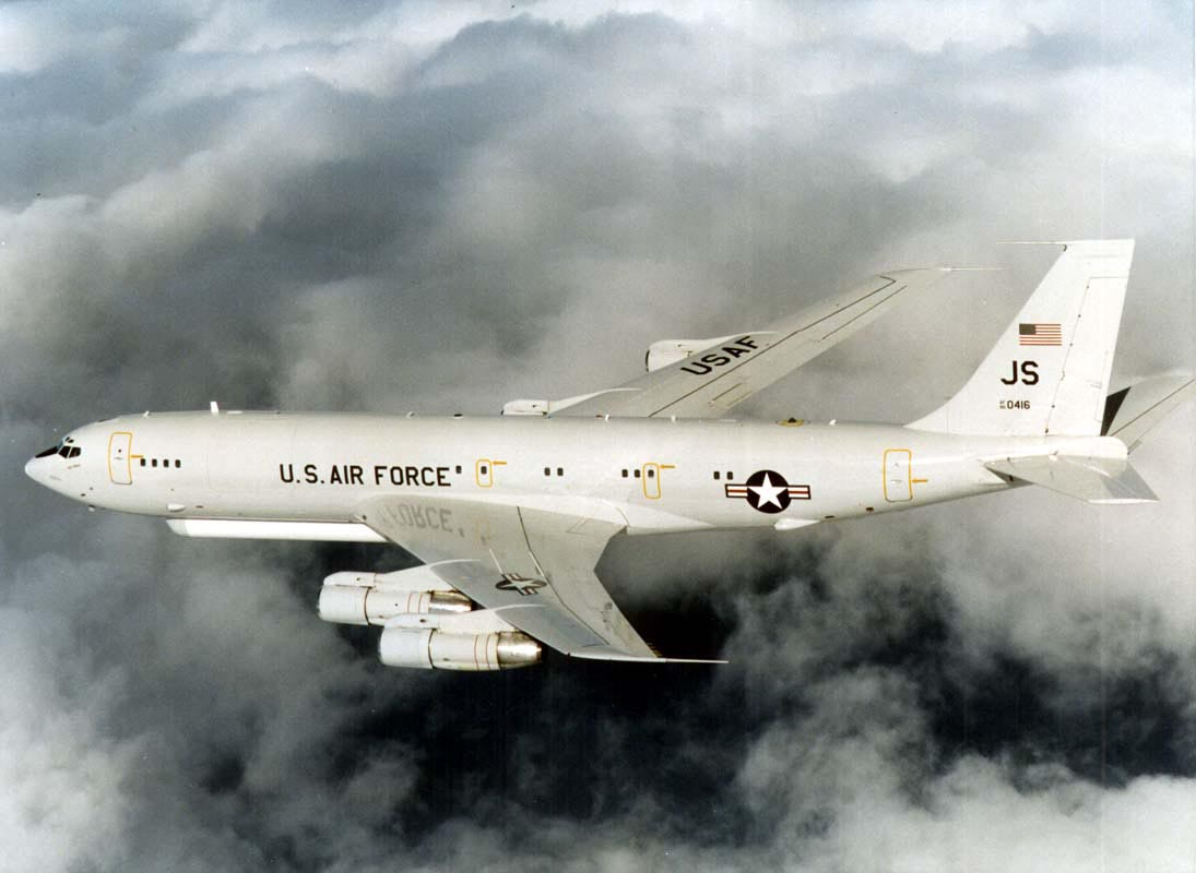 United States Air Force file photograph of an E-8C Joint STARS aircraft. FILE PHOTO -- The E-8C Joint Surveillance Target Attack Radar System is the only airborne platform in operation that can maintain realtime surveillance over a corps-sized area of the battlefield. A joint Air Force - Army program, the Joint STARS uses a multi-mode side looking radar to detect, track, and classify moving ground vehicles in all conditions deep behind enemy lines. (U.S. Air Force photo).